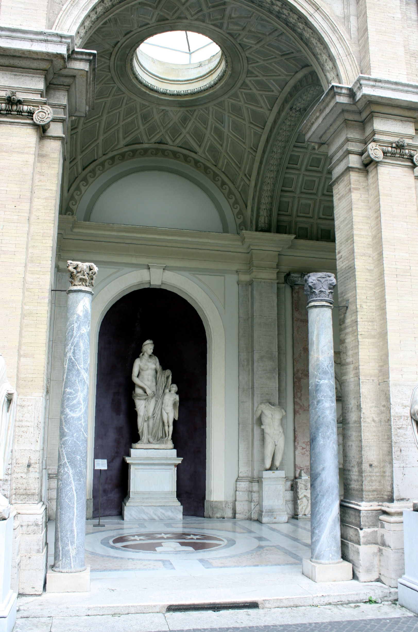 Vatican, Museum Pio-Clementino - view to the Venus Felix